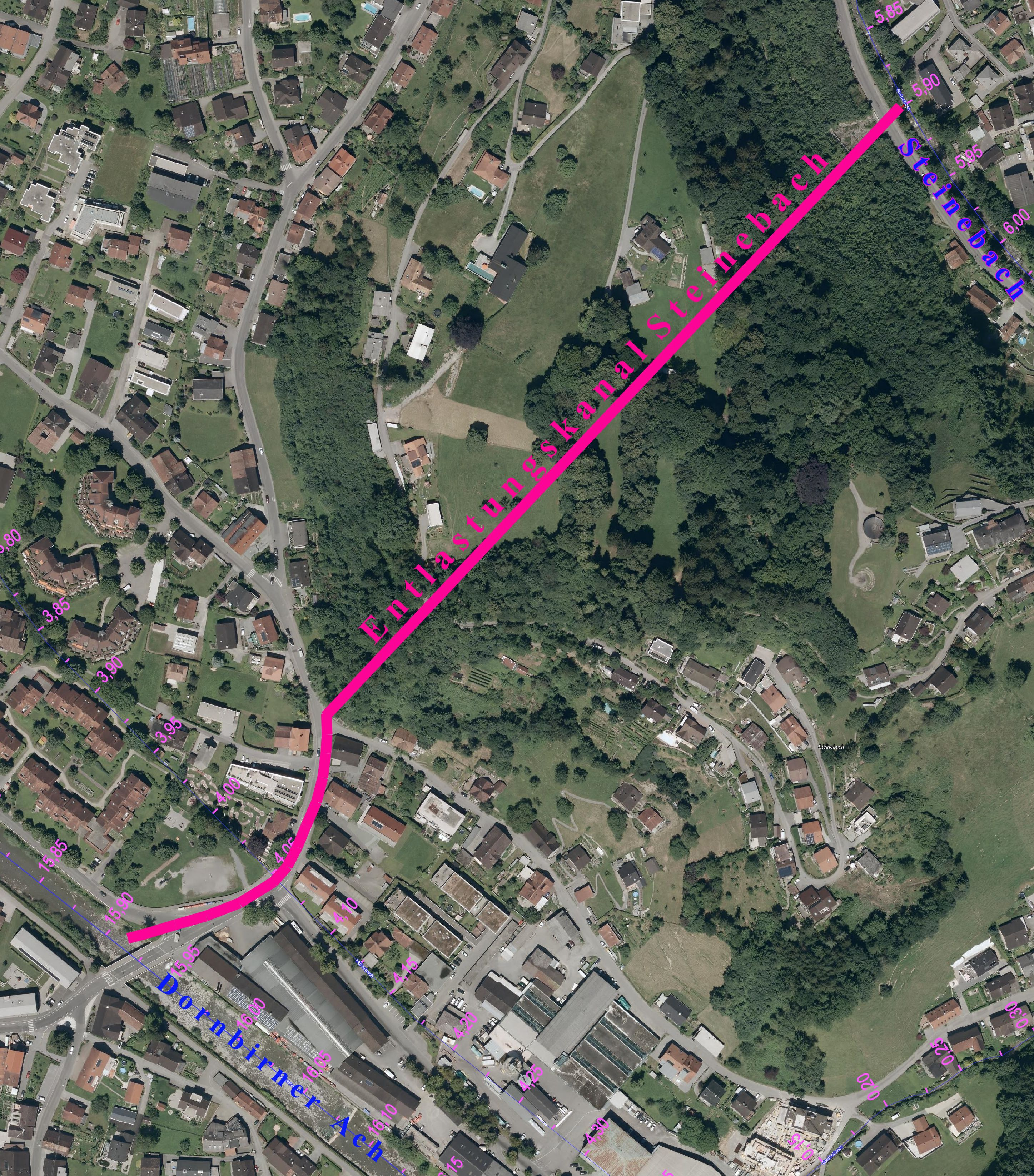 Planned relief channel and tunnel "Steinebach" in Dornbirn, Vorarlberg, Austria. Introduction of overwater at flood risk in the "Dornbirner Ache". Data Source: Country Vorarlberg - . Open Government Data Vorarlberg is licensed under a Creative Commons Attribution 3.0 Generic license. Approval for publication.